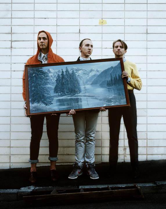 Promotional photograph of band The Paper Scissors.